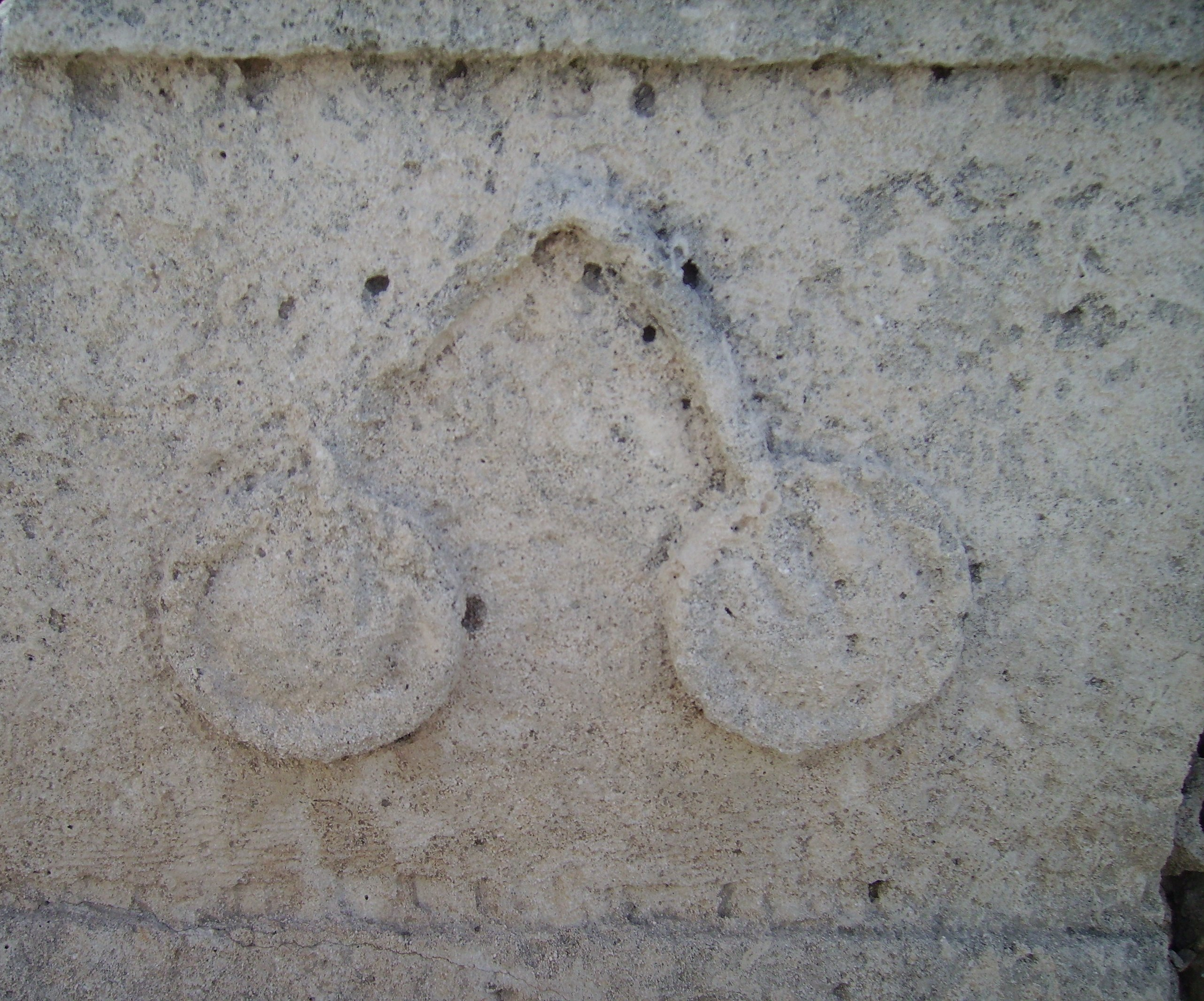 Cembali scolpiti sul podio dedicato a Cibele nel "Sacello delle divinità orientali" ad Egnazia. The usage of this reproduction of a "cultural good" may be restricted by Italian laws, which requires a payment to the local Soprintendenza (government department responsible for the environment, historical buildings, monuments and other treasures) for any use of reproductions of these goods (article 107) that are not for a personal or educational purpose (article 108). Wikimedia Commons is not required to comply as it is hosted in the United States of America. Users who are citizens of Italy are warned that they are solely responsible for any possible violation of local laws. See our general disclaimer for more information. These restrictions are independent of the copyright status of the depicted work. The following are considered cultural heritage assets (article 10): state owned things with some artistic, historic, archeological or ethno-antropological interest such as artworks displayed in museums or galleries, archeological remains, historical buildings, libraries, archives collections, places of cultural and artistic interest, photographs, and other items declared cultural heritage by the Ministry of Cultural Heritage and Activities unless explicitly removed on a case by case basis. The national catalog of cultural heritage assets is not publicly accessible. Reproductions of Italian works classified as "cultural goods" may only be displayed on the Italian Wikipedia using the appropriate copyright tag under its Exemption Doctrine Policy. This requires that they be locally uploaded, low resolution, and must have a rationale for their use. The full-resolution copies on Commons must not be used.